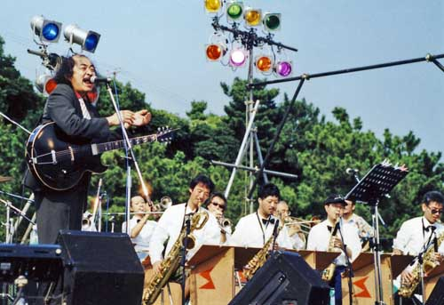 Mitsuyoshi Azuma & the Swinging Boppers at the Honmoku Jazz Festival, Yokohama, Japan 吾妻光良＆ザ・スウィンギン・バッパーズ＠YOKOHAMA本牧ジャズ祭